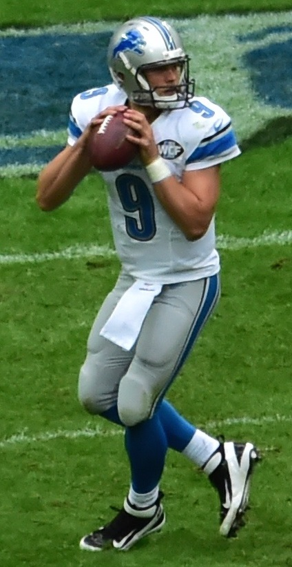 Detroit Lions vs Atlanta Falcons - Wembley 2014